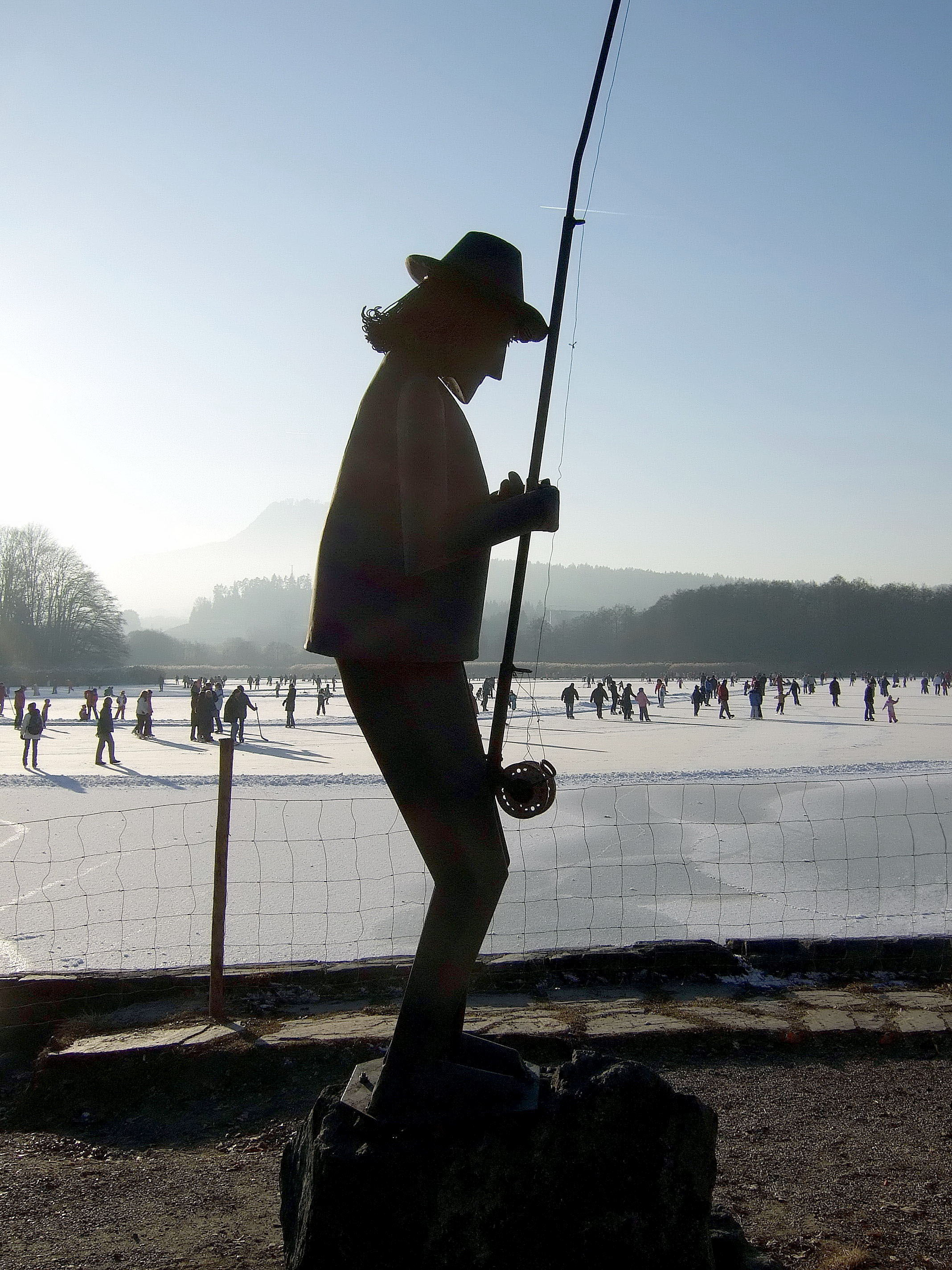 Lake Hoerzendorf at Hoerzendorf in the community Saint Veit on the Glan, district Saint Veit on the Glan, Carinthia, Austria